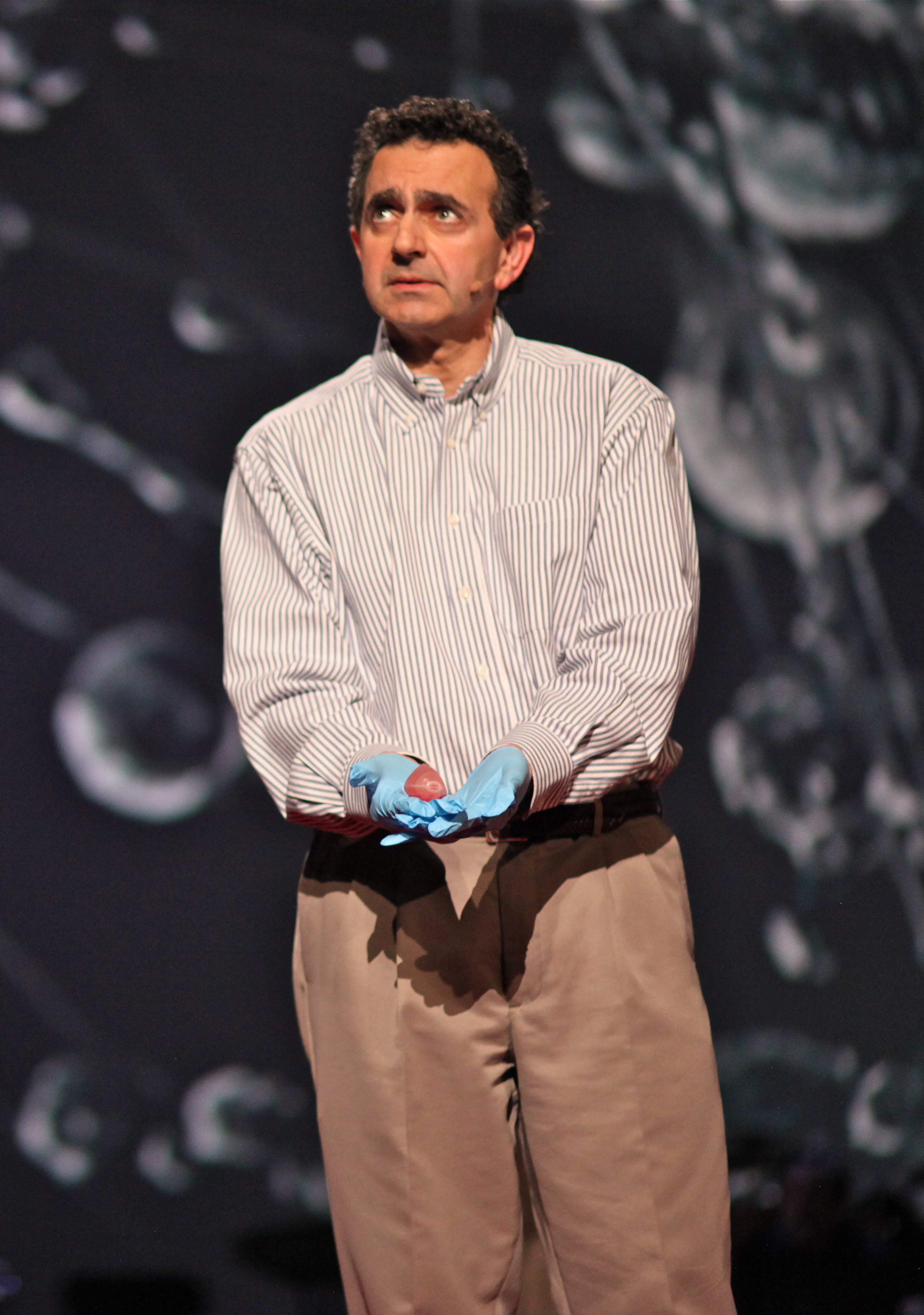 Dr. Anthony Atala shows a kidney created layer by layer by the printer in the background. A modified desktop ink jet printer sprays cells instead of inks. The cells are cultured from the patient and the structural template for the kidney comes from MRI scans (so it will be the right size and shape). The TED Video just went online. Using similar technology, Atala constructed a bladder for a young boy, Jake, 10 years ago. At the end of the talk (photo below), Jake rejoined the good doctor on stage to thank him.